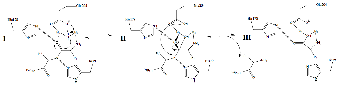 Recreated on ChemBioDraw 14.0 but adapted from Scheme 4 of Lowther W, Matthews B (Dec 2002). "Metalloaminopeptidases: common functional themes in disparate structural surroundings". Chemical Reviews 102 (12): 4581–608. PMID 12475202